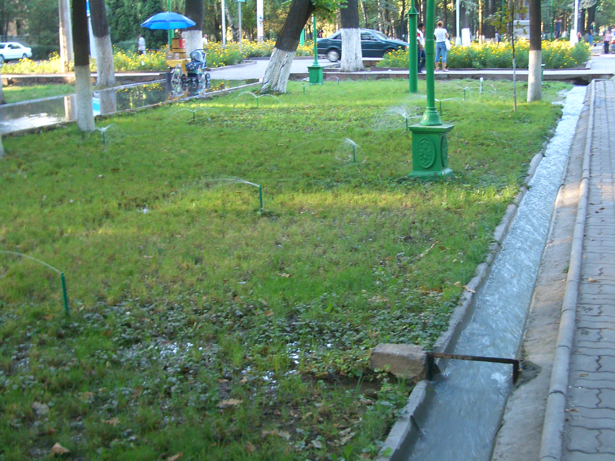 Typically for Bishkek's main streets, ditches and sprinklers are both used to water vegetation in Erkindik Blvd